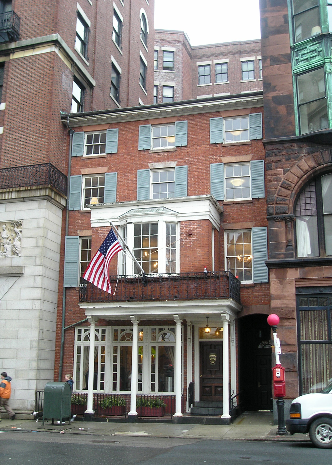 The Chester Harding House is the brick Federal-style building at the intersection of Beacon Street and Bowdoin Street in downtown Boston as photographed 5 February 2008 from across the street at the corner fence of the Massachusetts State House.